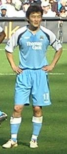 Sun Jihai playing for Manchester City.